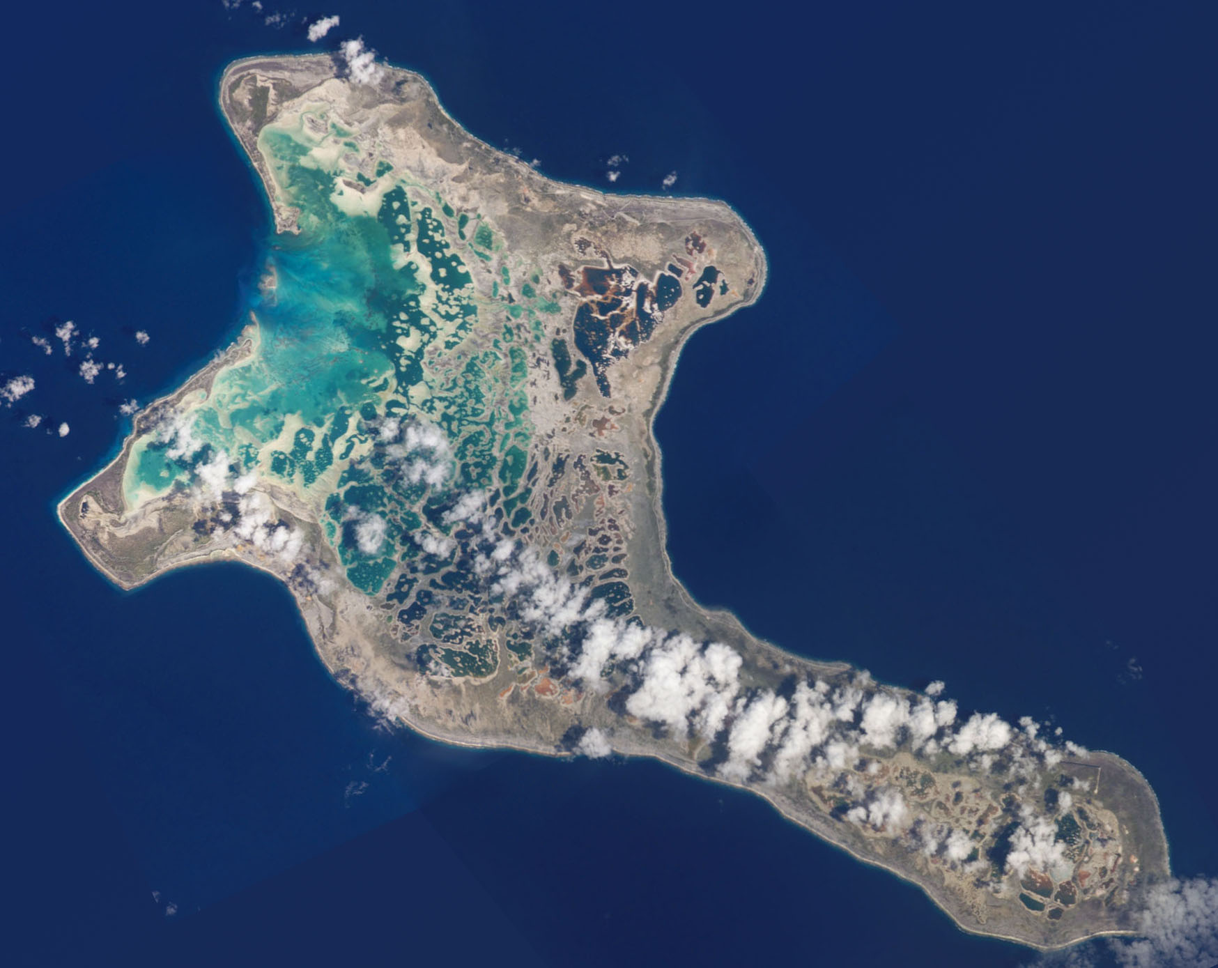 Kiritimati (Christmas Island) as seen by the crew of Expedition 4 aboard the International Space Station. The mosaic is based on images ISS004-ESC-6249 to 6252